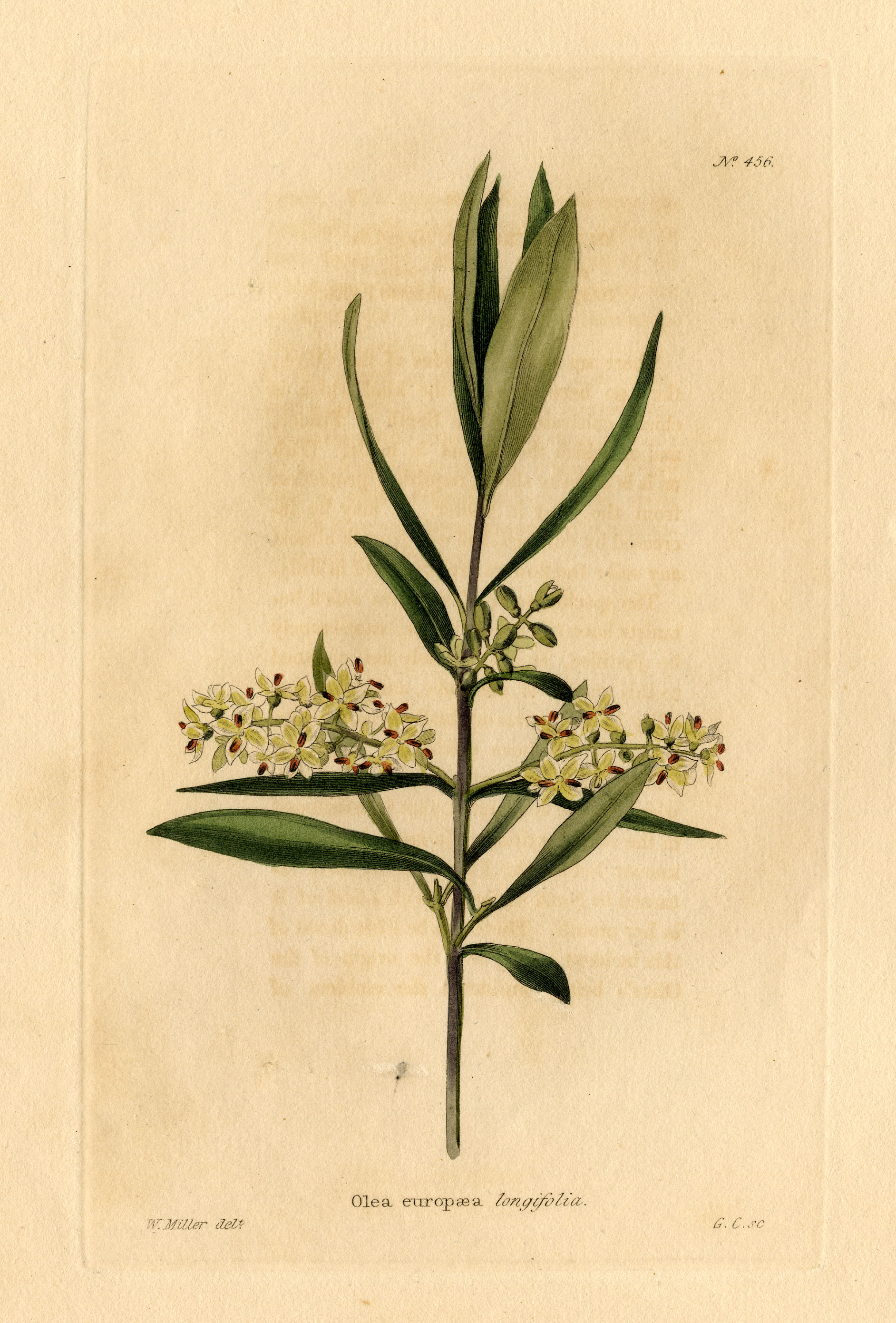 Olea europaea drawn by William Miller from "The Botanical Cabinet" (London 1817-1833) plate 456